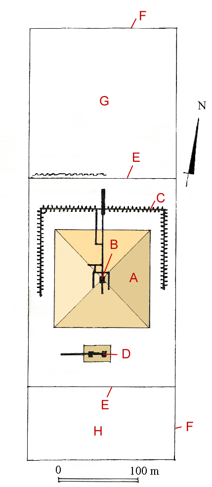 Complex of the Sekhmkhet-Pyramid